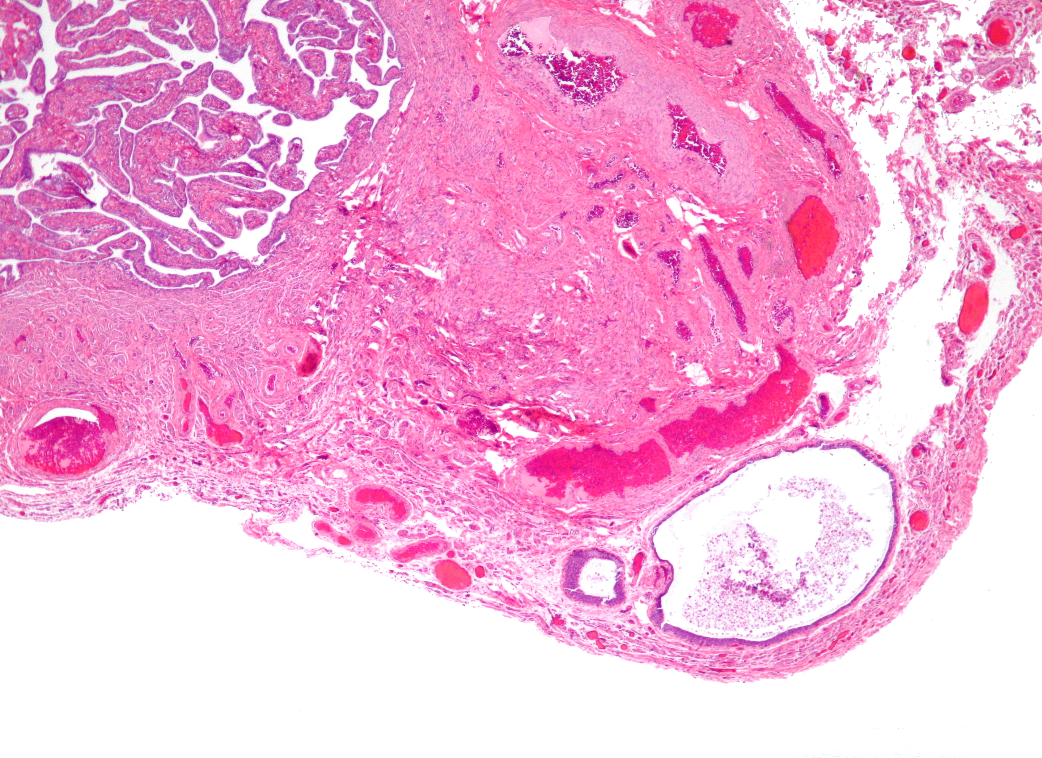 Very low magnification micrograph of a cystic Walthard cell rest, also known as Walthard cell nest. H&E stain. Morphologic features: Elliptical nuclei with a groove along the major axis; "coffee bean" nucleus. Nests - usually a solid sheet of cells. Related images Very high mag. High mag. Intermed. mag. Low mag. Very low mag. Brenner tumour: High mag. (cropped) High mag. Intermed. mag.